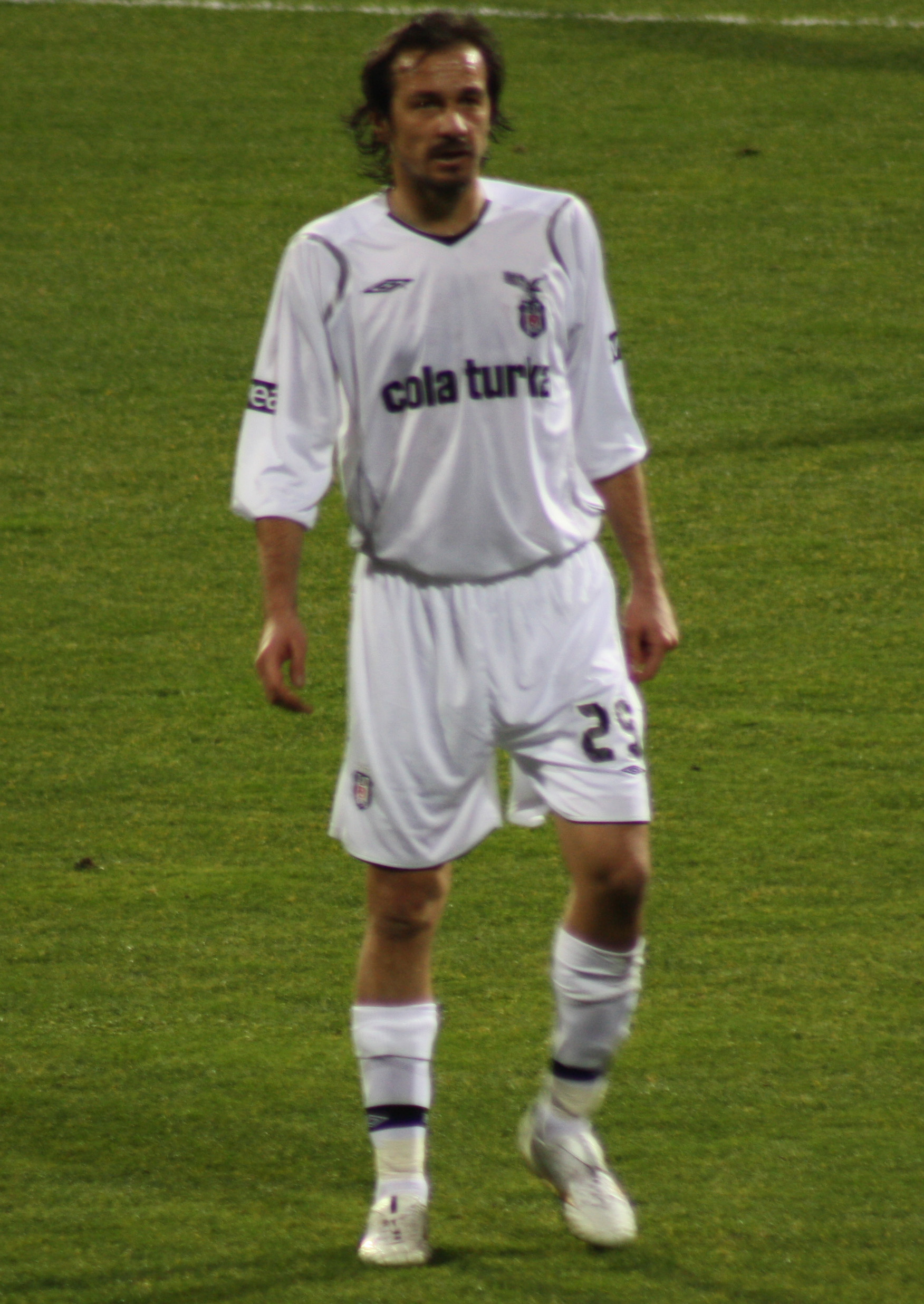 Yusuf Şimşek during Beşiktaş-Denizlispor match, 24.01.2009.